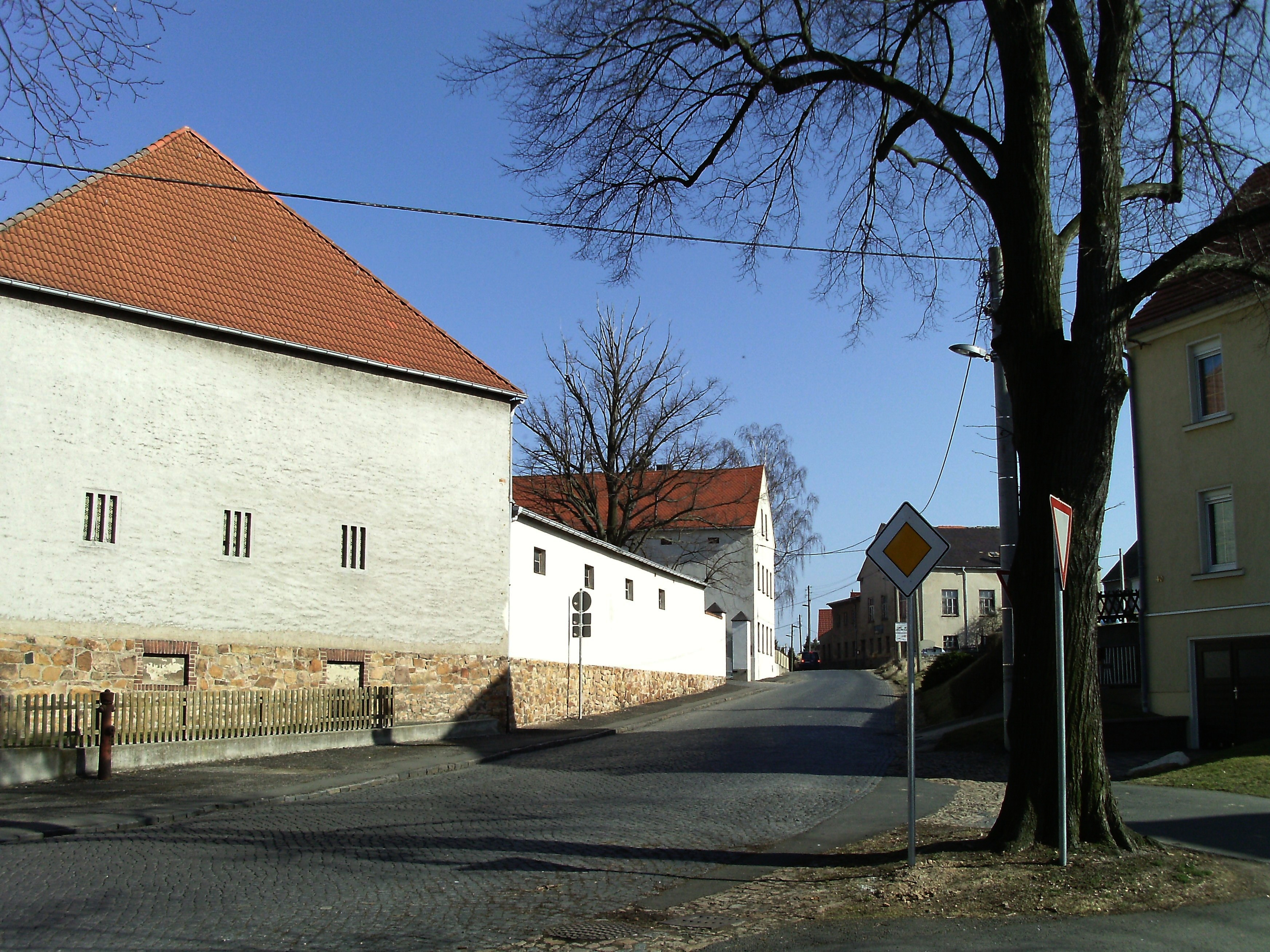 Bergstrasse in Golzern (Grimma, Leipzig district, Saxony)